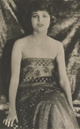 Agnes Ayres, from a 1921 publication.